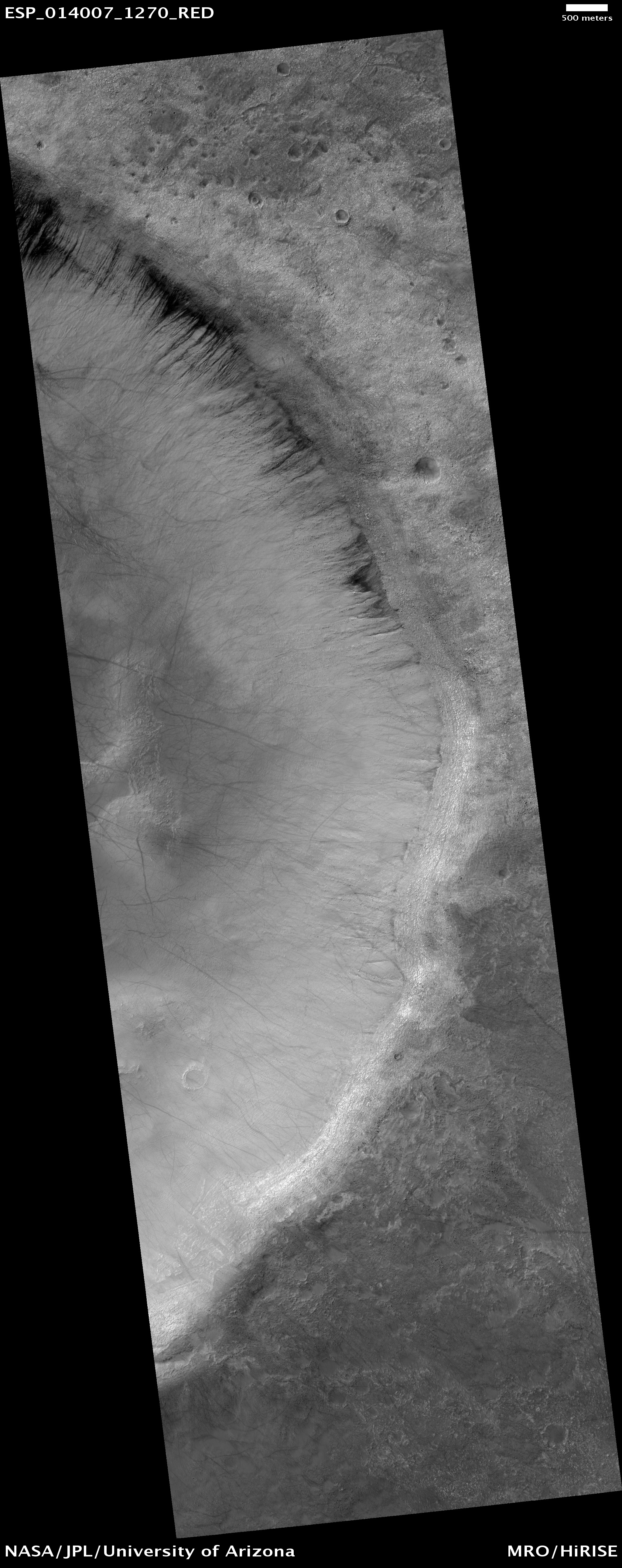 Green Crater Gullies, as seen by hirise. Location is 52.7 S and 352.2 E.